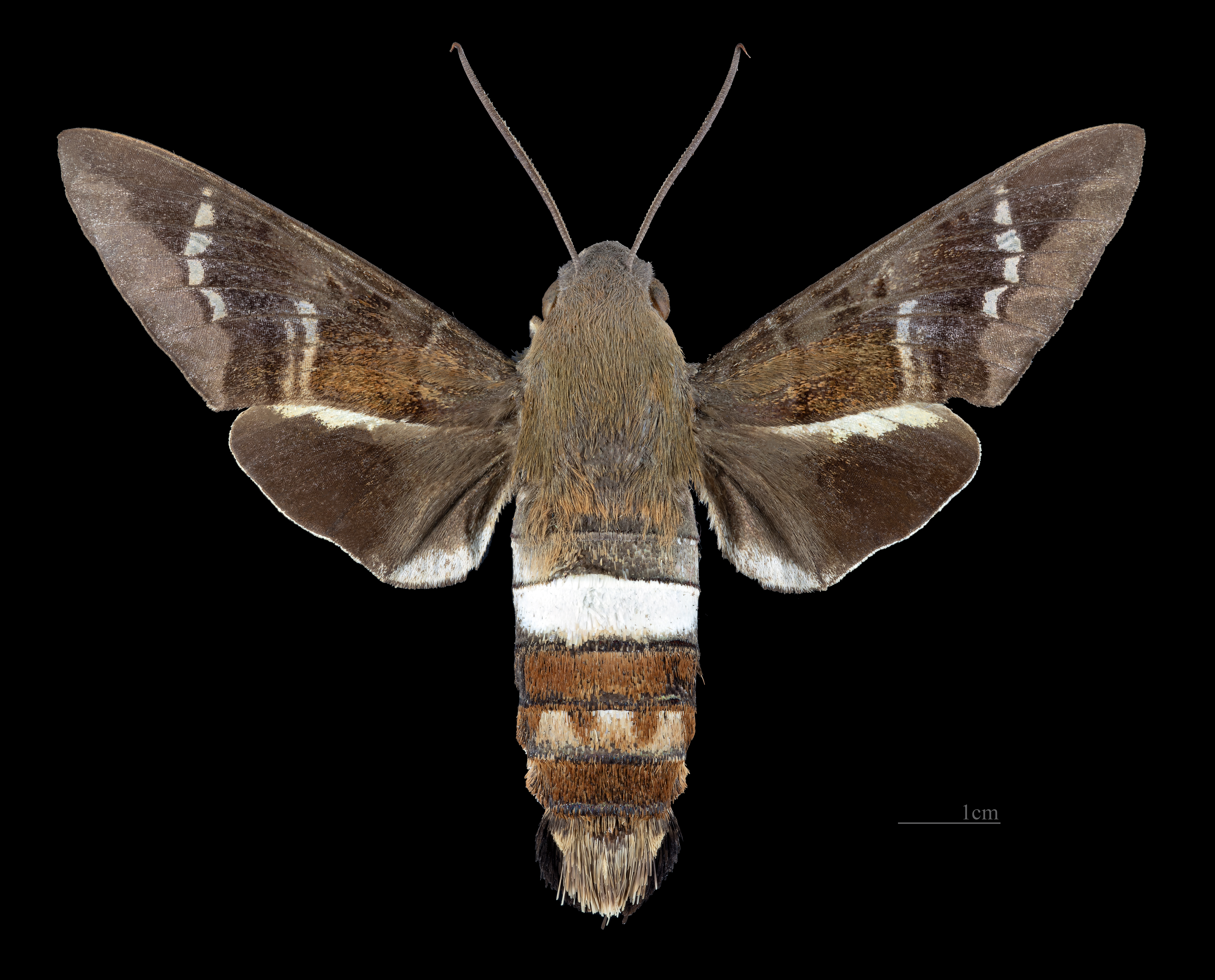 Aellopos titan - Dorsal side Collection of the Mathematician Laurent Schwartz